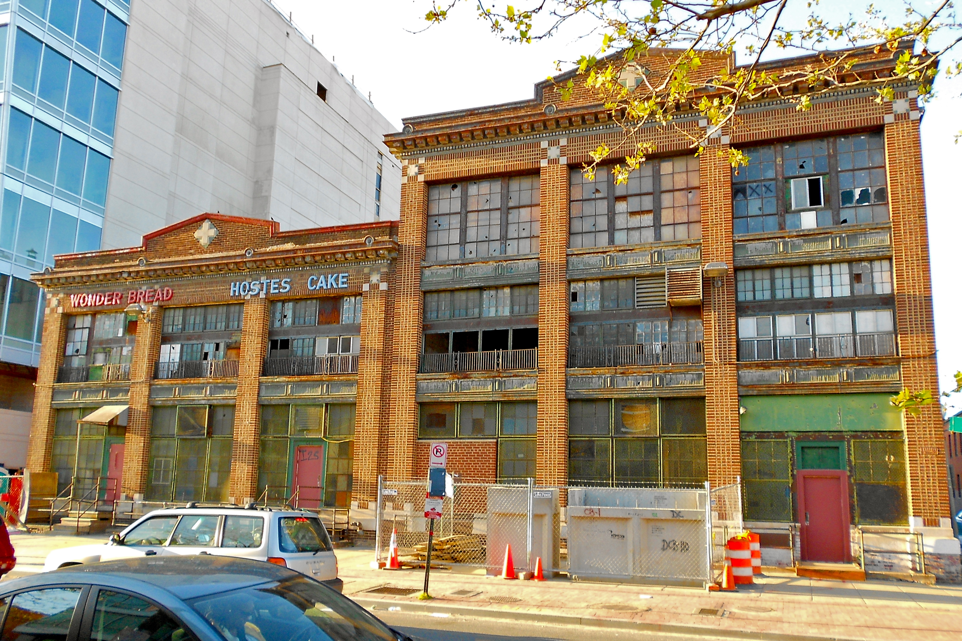 Dorsch's White Cross Bakeryon the NRHP since February 3, 2012 . At 641 S St., NW in the Cardozo-Shaw neighborhood of Washington, DC.